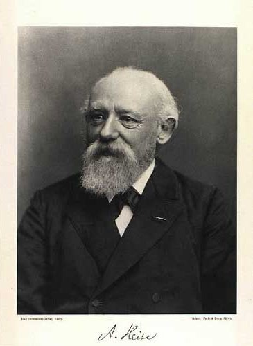 Carl Arnold Leopold Heise (1837-1915), Danish historian, genealogist, and educator